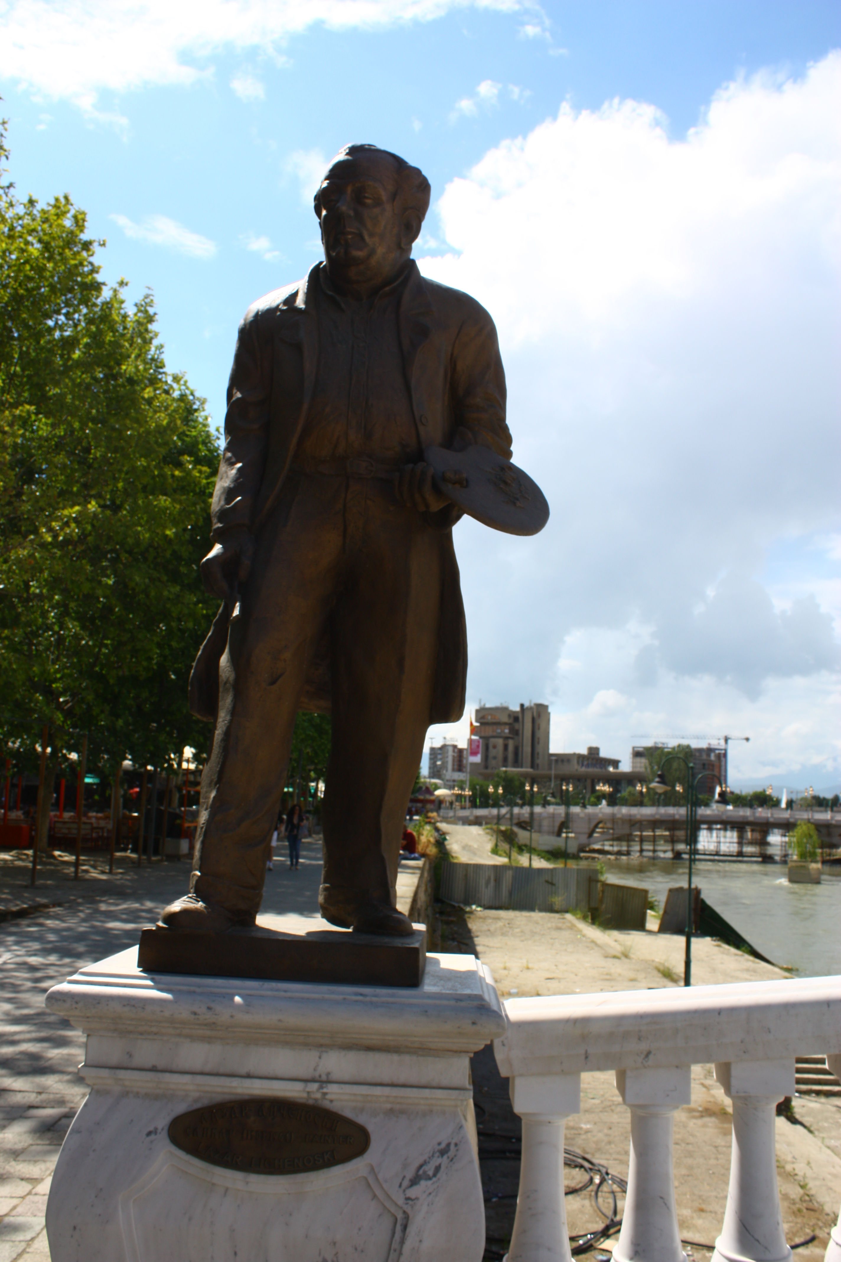 Sculpture od the Bridge of Arts in Skopje, Macedonia This image is uploaded as part of the picture contest Wiki Loves Cultural Heritage in Macedonia 2013. English | македонски | +/−